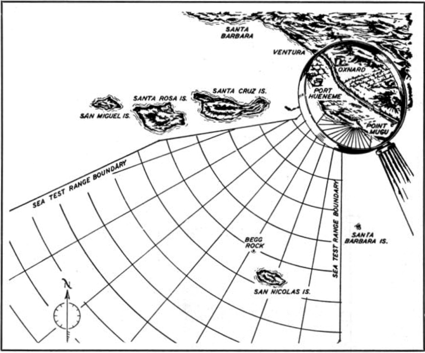 Map showing the U.S. Navy Pacific Missile Range of the Pacific Missile Test Center Point Mugu, California (USA).